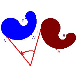 Rotation (with letters to show it's non-inverting), made with kig, by Toobaz (